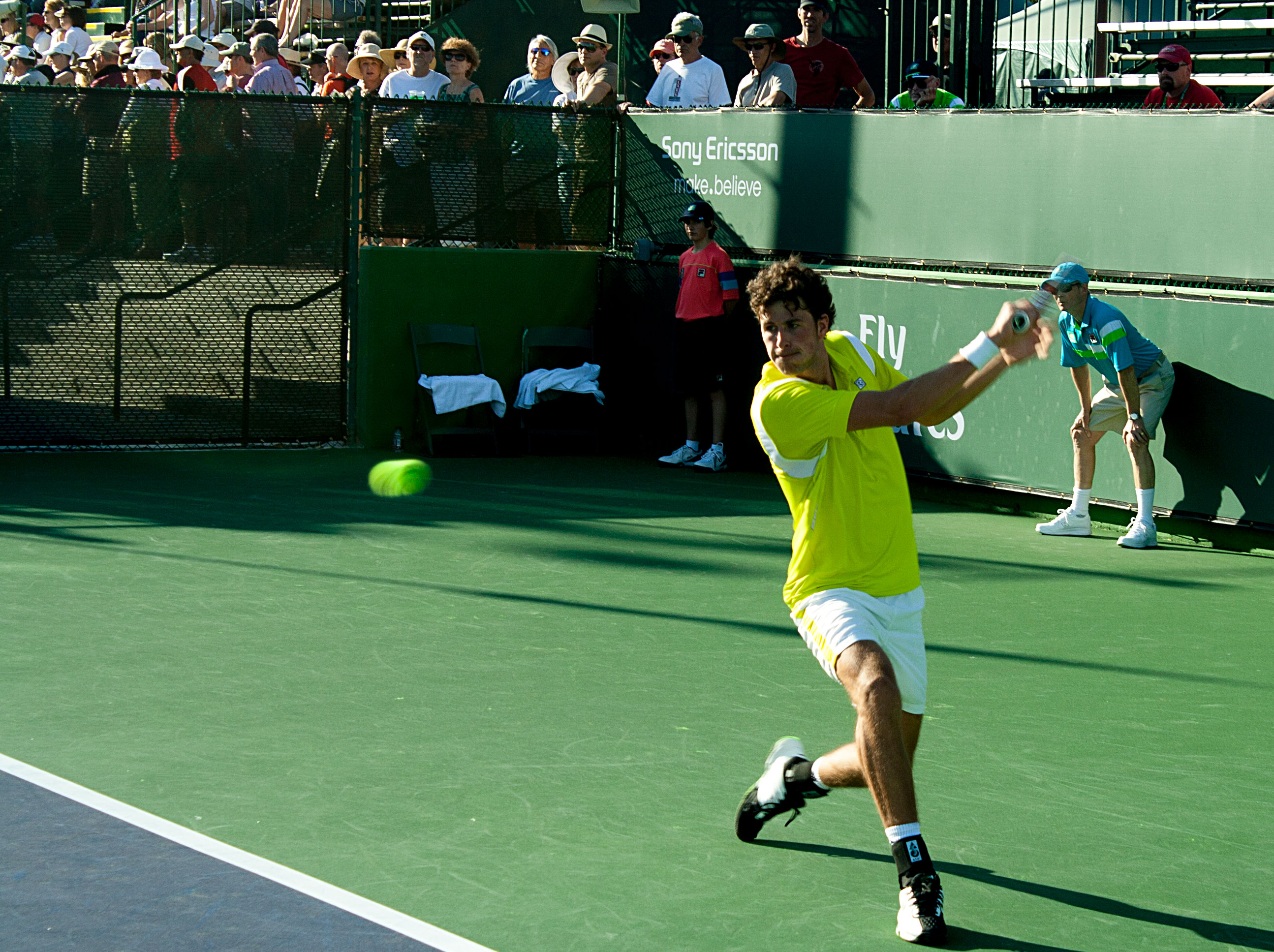 He got so pissed at the ball kids that he wanted them to be changed out. No fun.